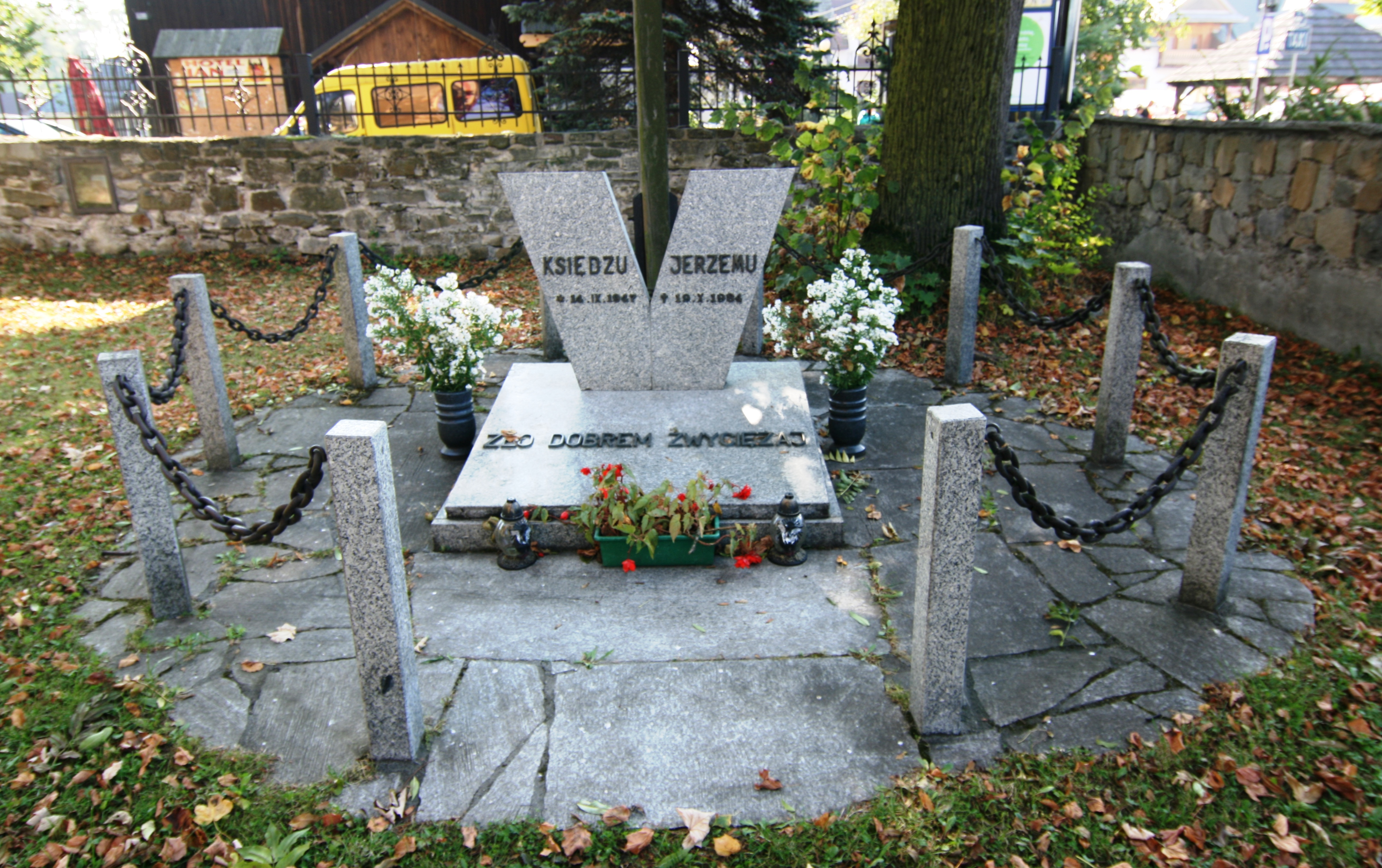 All Saints Church in Krościenko nad Dunajcem (Poland) – monument devoted to Jerzy Popiełuszko